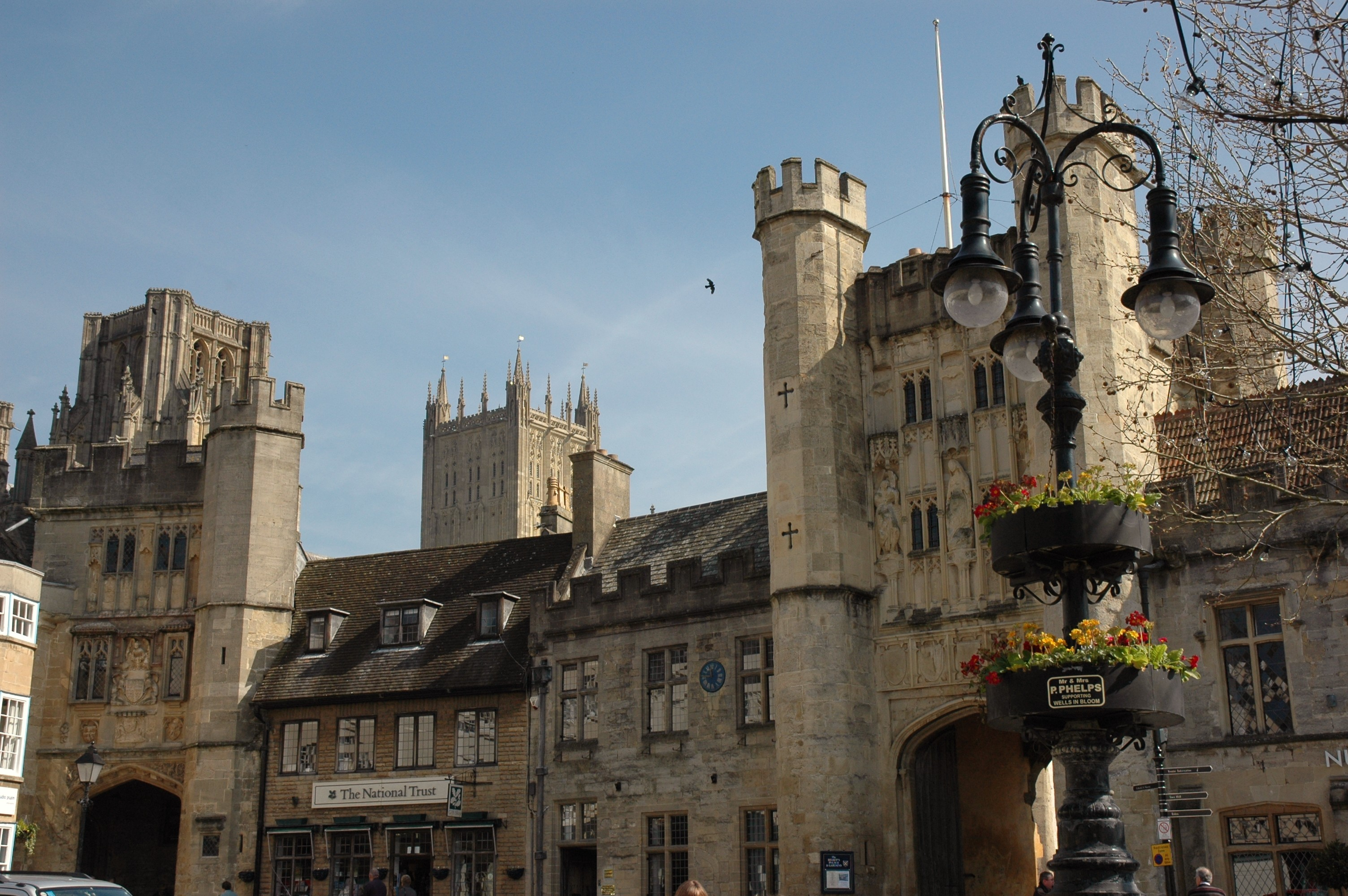 Wells - Penniless Porch (left), The Bishop's Eye (right), Wells Cathedral in the back